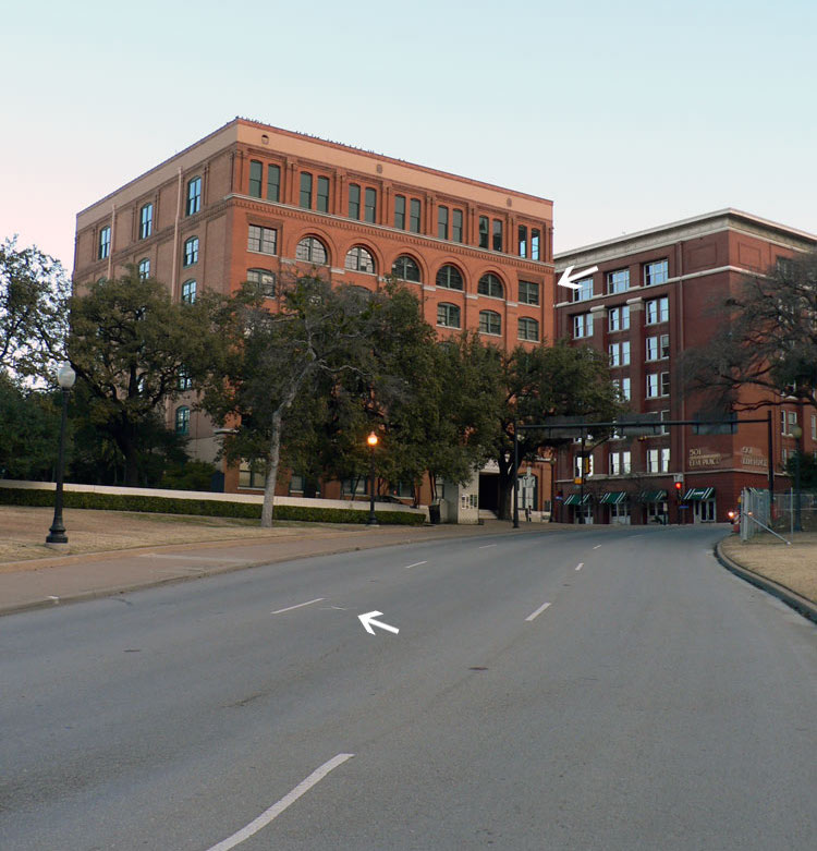 Dallas, Dealey Plaza, former Texas School Book Depository Building, with white arrows showing the 6th fl window and mark on the Elm St where JFK was struck.